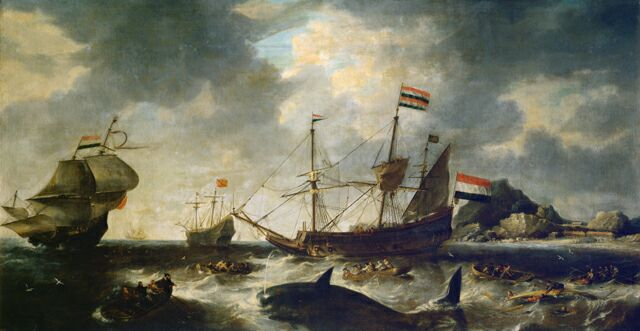 This oil painting featuring a Dutch whaling scene was painted in 1645 by Bonaventura Peeters the Elder. Part of what makes this painting so special (besides that it is a beautiful piece of art) is that it is currently the fourth oldest known whaling painting. The probably location for the scene is Smeersburg (“Grease Town”), a Dutch whaling settlement on Spitsbergen, founded in 1619. It is unlikely that the piece portrays a specific event. Rather, it was likely intended to highlight the importance of arctic whaling to the 17th-century Dutch economy. Though the harpooned whale in the center of this picture is not accurately portrayed, the Dutch were the first to produce realistic images of whales, based on studies performed after a whale washed ashore. This painting is in the collection of The Mariners' Museum, Newport News, VA.